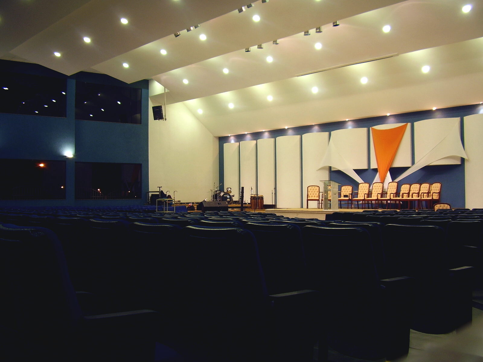 ADGO inside